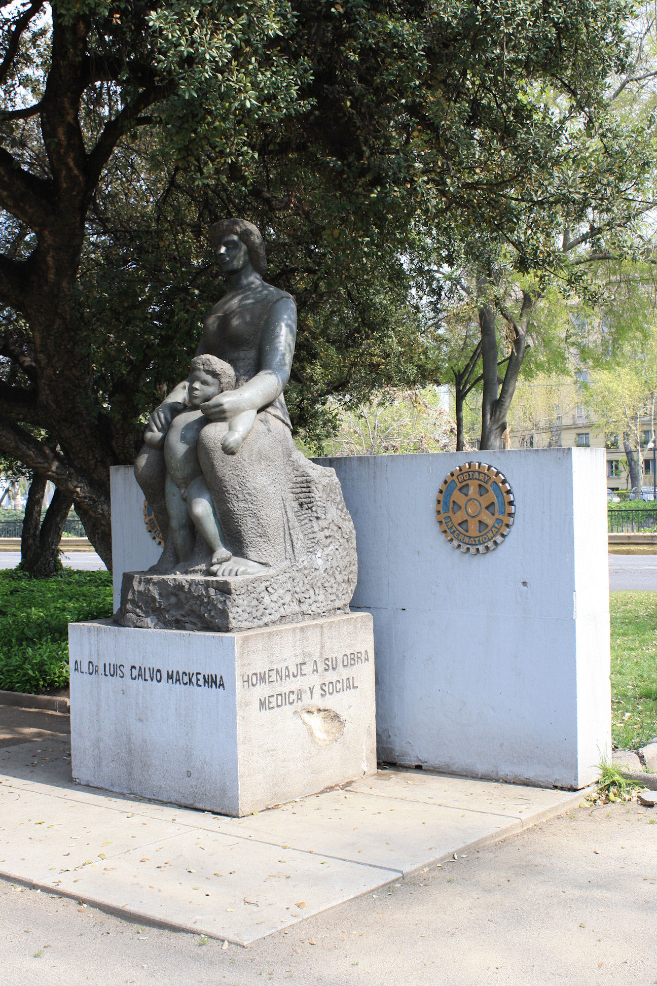 In 1941, the Rotary Club of Chile erected this monument in honor of Dr Luis Calvo Mackenna, a pediatrician. The stone sculpture by Lorenzo Domínguez represents a mother and child, and is known as "Motherhood." The monument is in Parque Balmaceda, Santiago de Chile